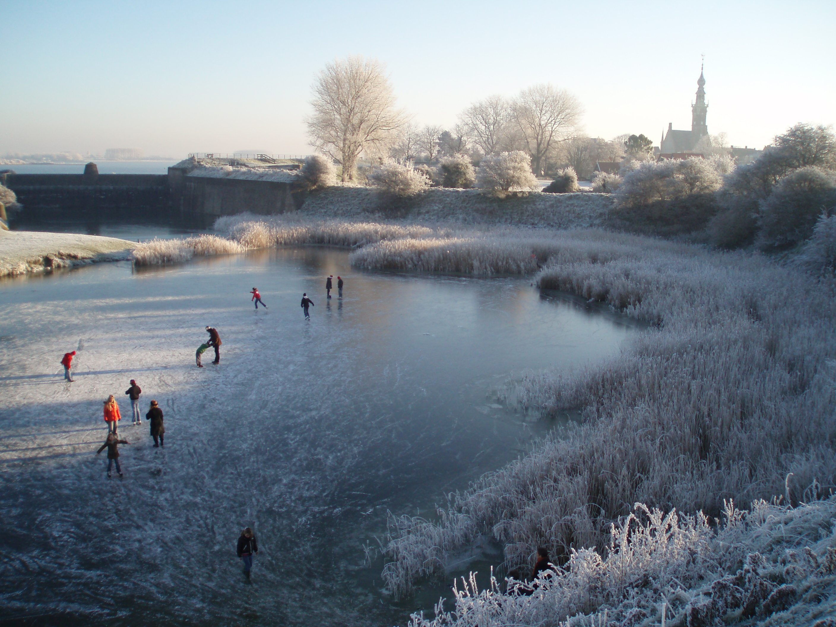 Veere in de winter 22 december 2007